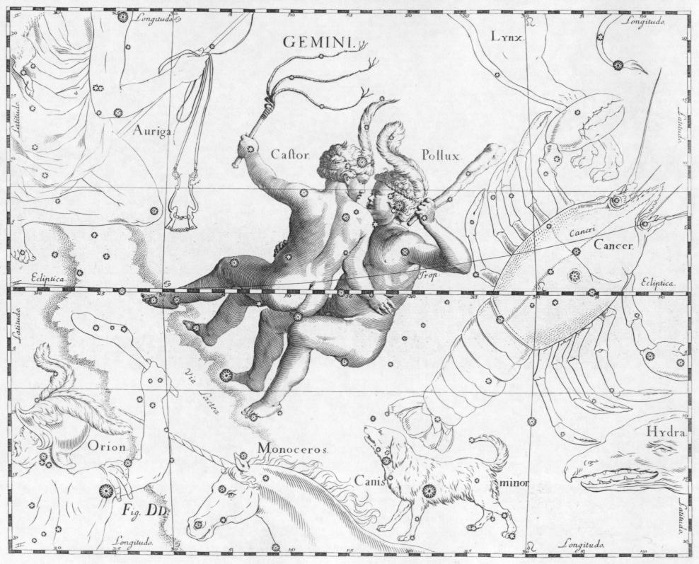 The Gemini constellation from Uranographia by Johannes Hevelius. The view is mirrored following the tradition of celestial globes, showing the celestial sphere in a view from "ouside"